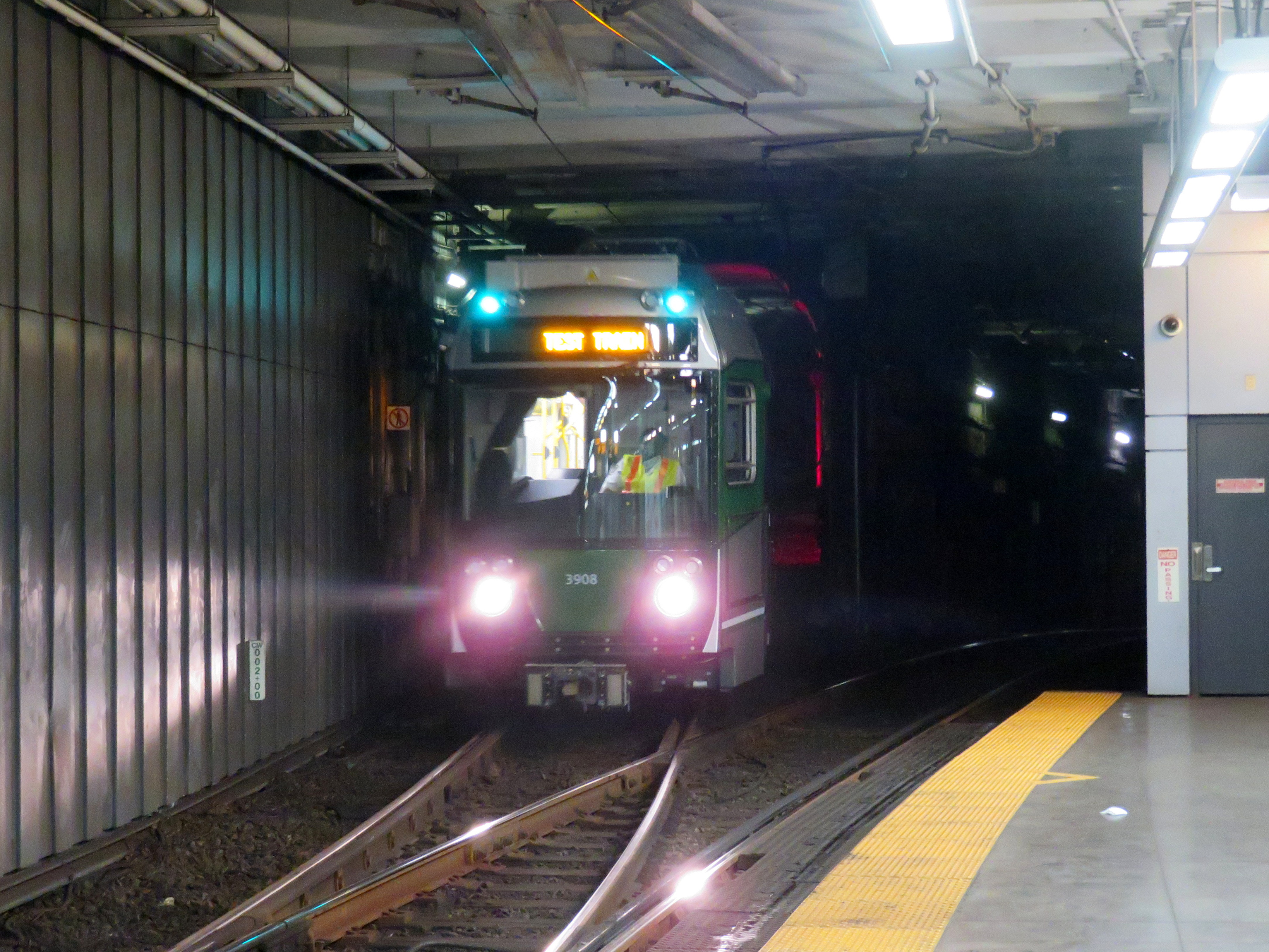 A Type 9 test train exits the loop at Kenmore station in July 2019